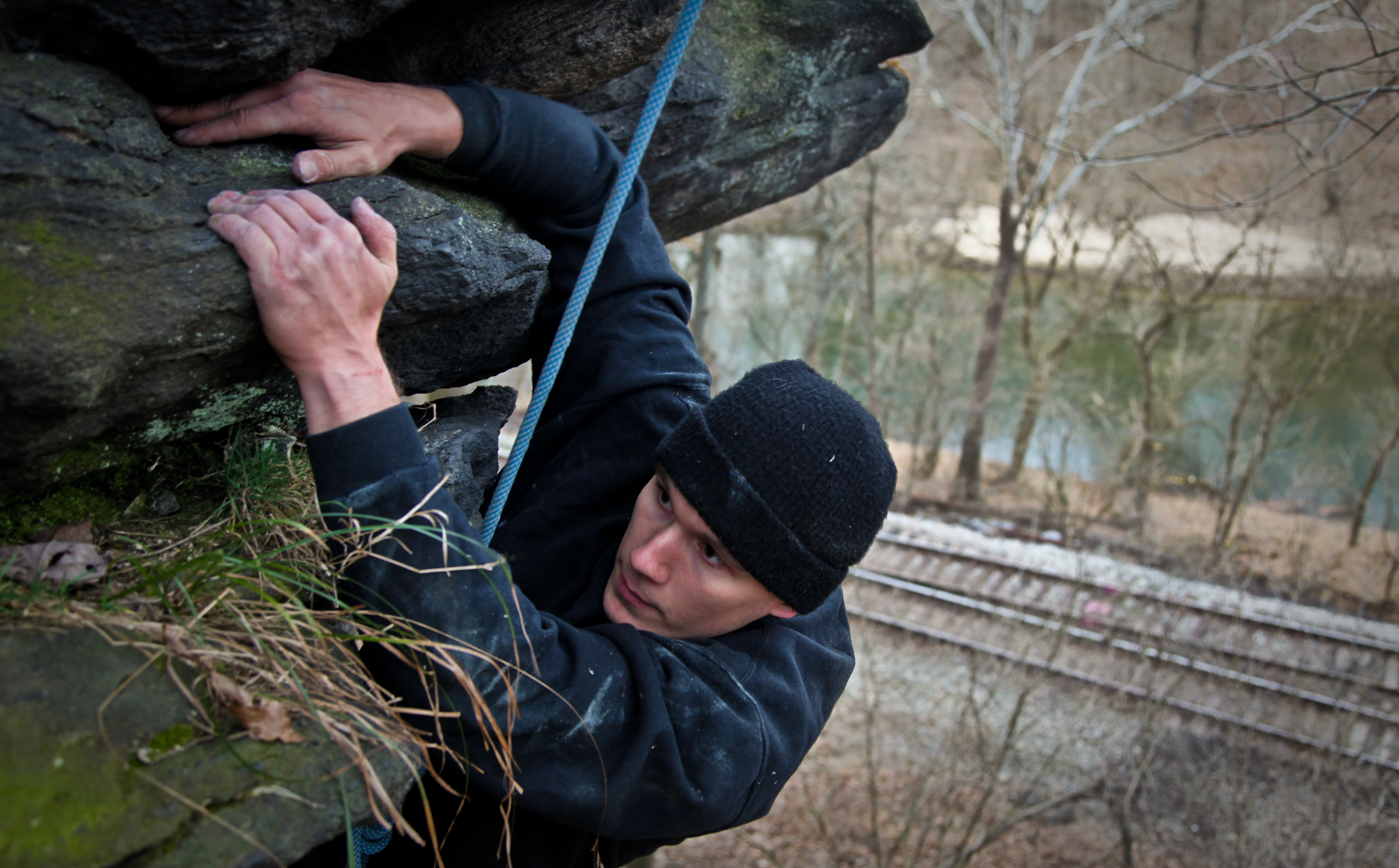 Rock Climbing at Woodstock Crag in Woodstock, Maryland.